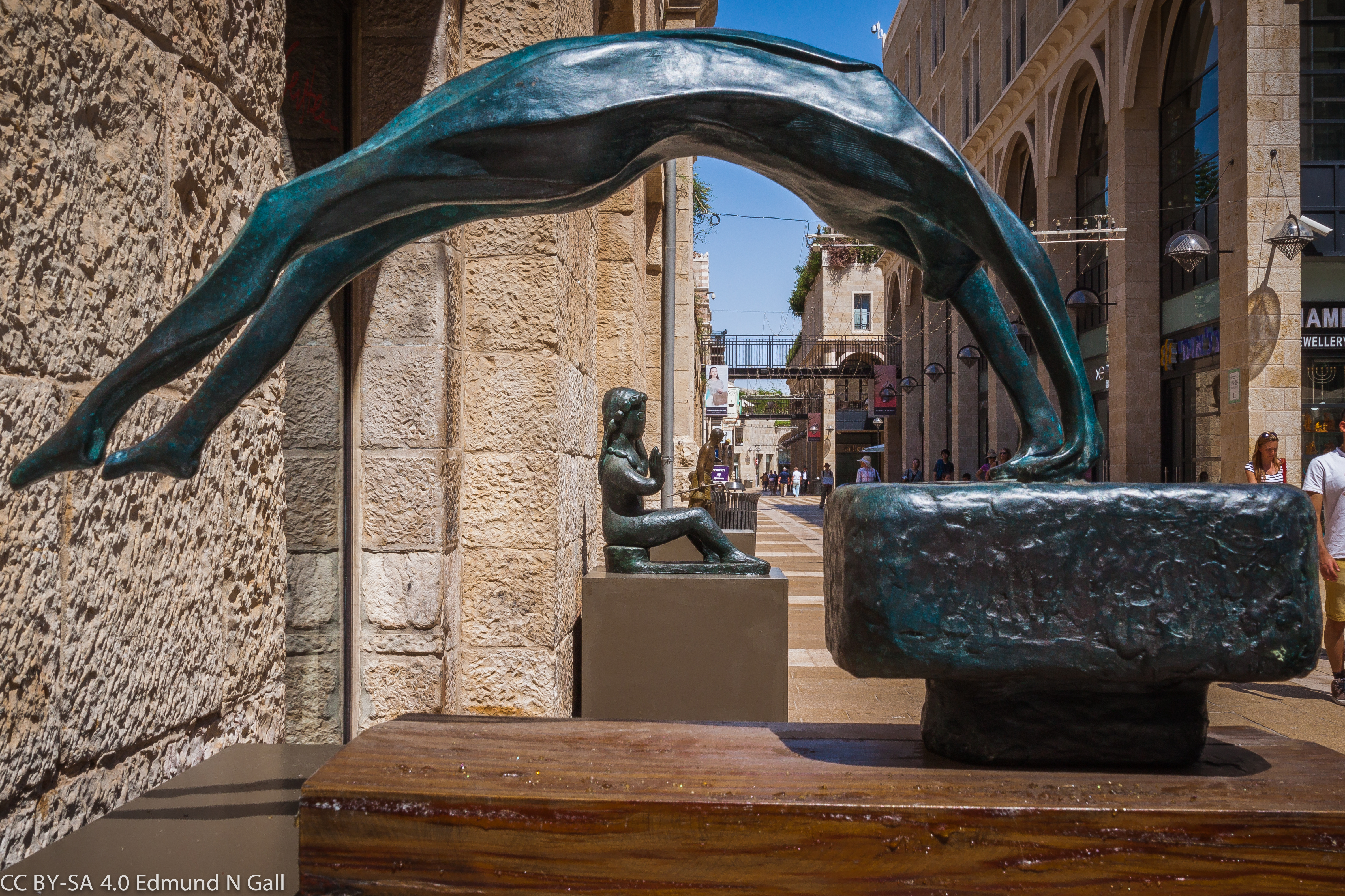 On either side of this open mall, small pieces of artwork stood displayed outside each shop...